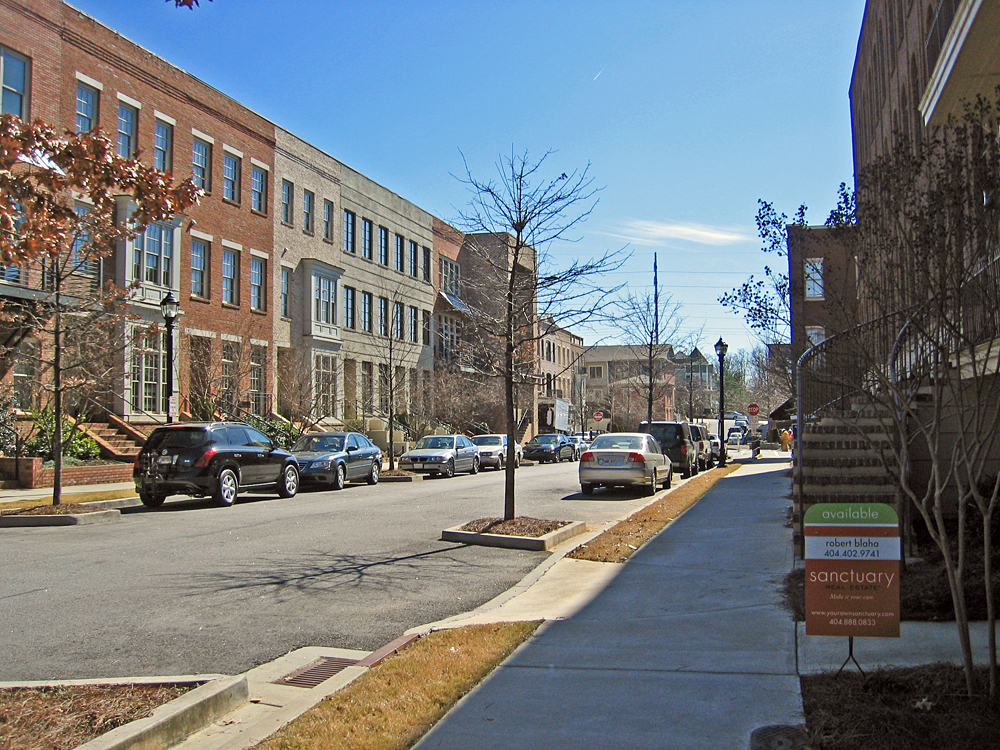 Street with midrise multifamily housing in Glenwood Park. Attributed to: EPA Smart Growth